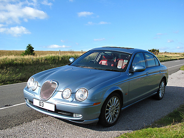 This is a 2003 Jaguar S-Type Sport Plus with the 3.0 V6 engine and a manual gearbox. The grille is different to that of the SE and Sport models, featuring a polished mesh and chrome frame.